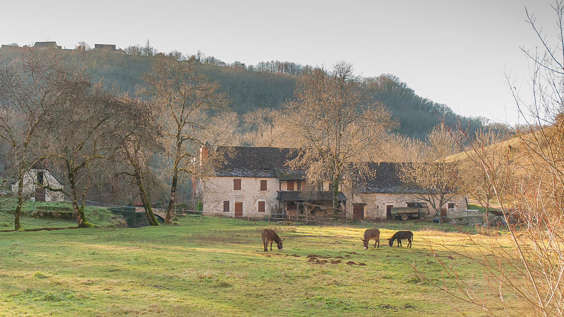 A view of Murel water mill, on the upper valley of Vignon, Martel township, Lot, France.